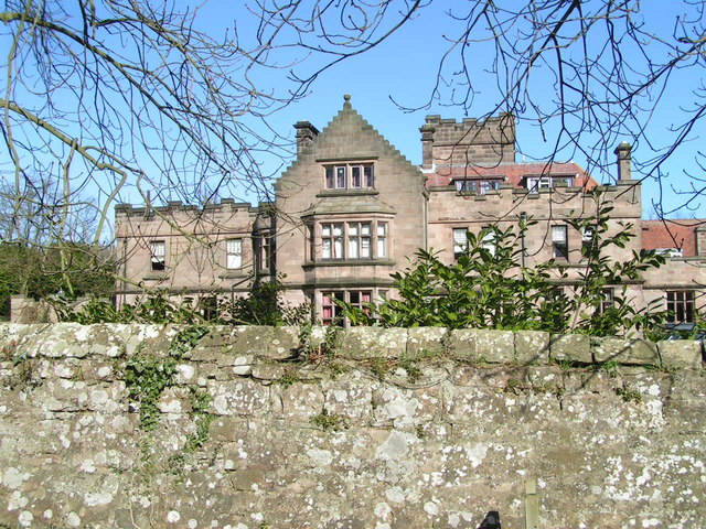 Ellingham Hall Victorian country house available for hire .